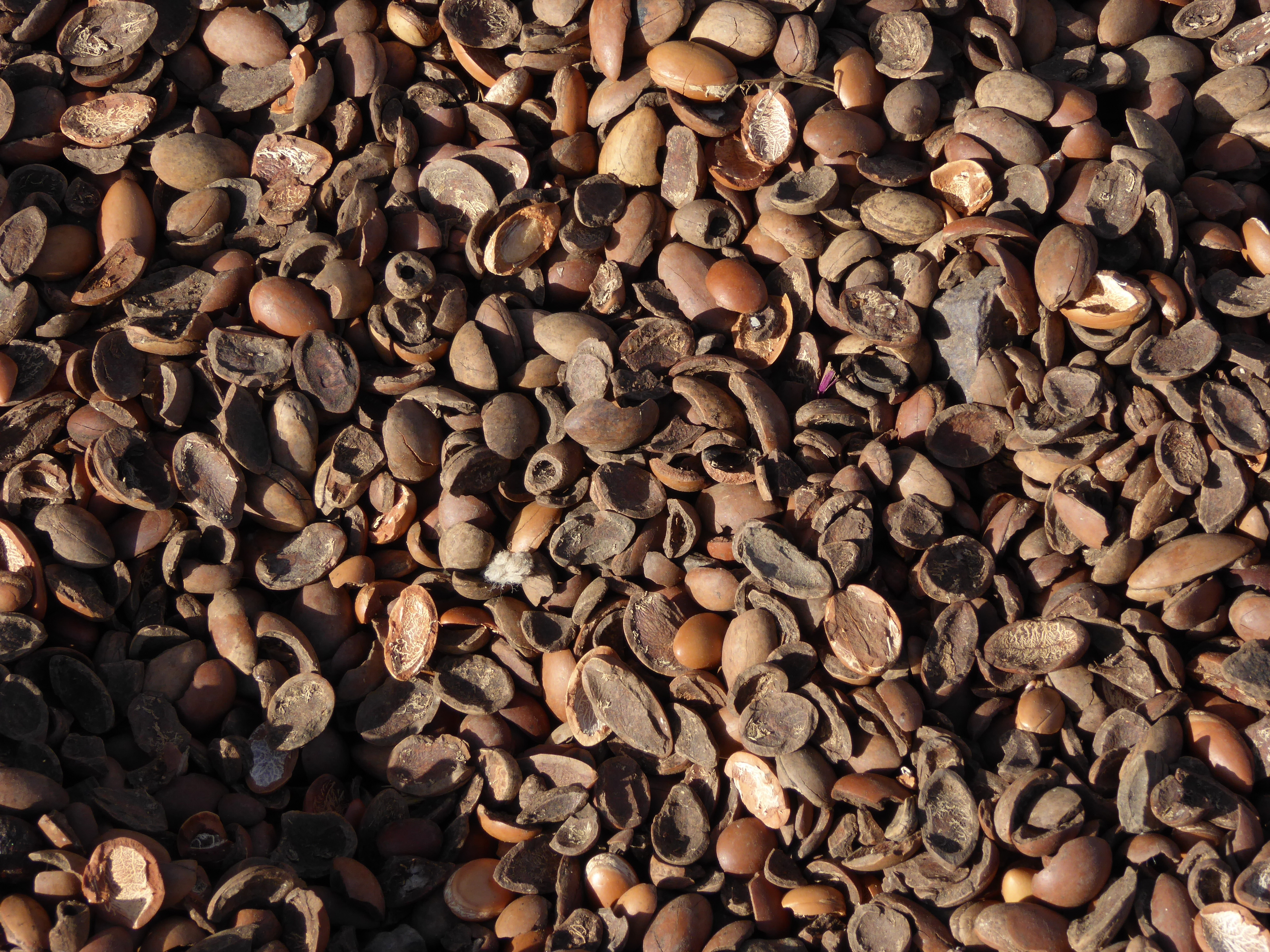 Argan Seeds